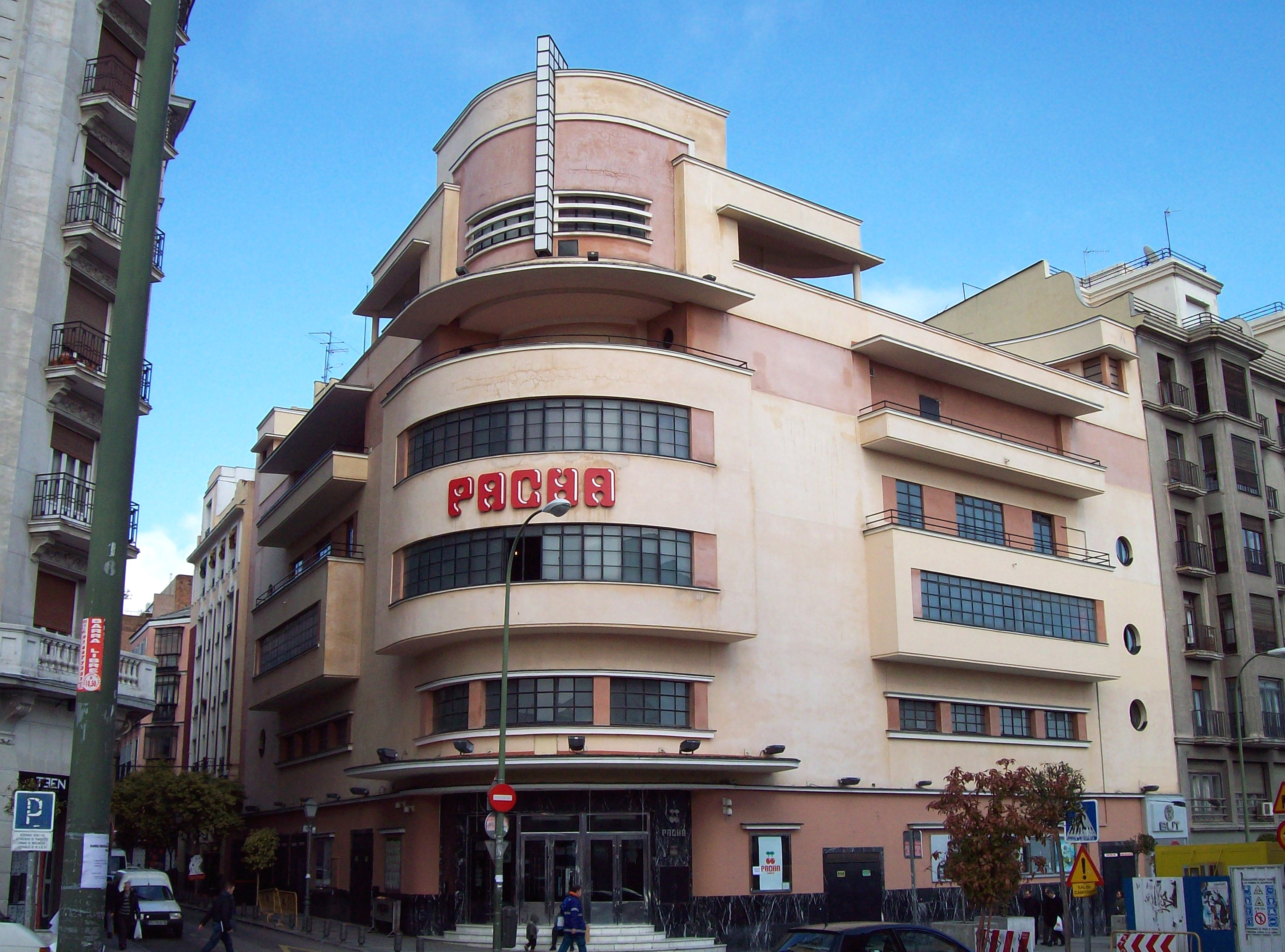 Facade of Pachá Madrid (former Barceló Cinema), at 11 Calle de Barceló (street) in Centro district in Madrid (Spain). Building was projected in 1930 by architect Luis Gutiérrez Soto and built in 1930.